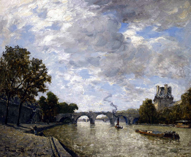 Along the Seine, Paris by Frank Boggs.